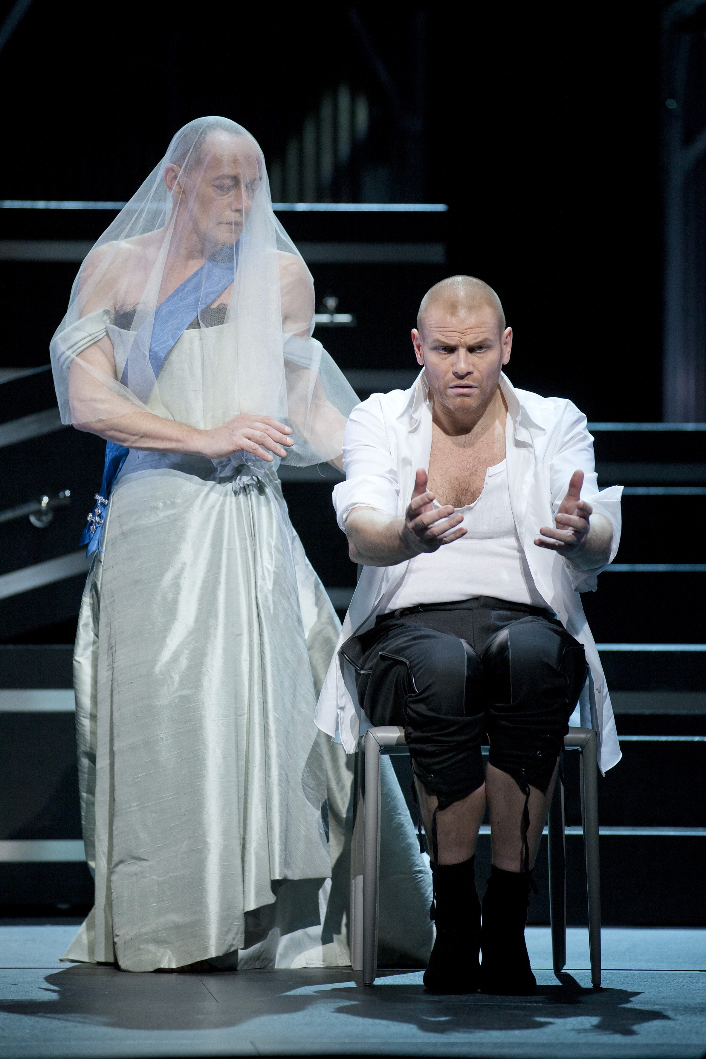 Production of Lear at Hamburgische Staatsoper 2012, stage photo: Bo Skovhus as King Lear (on chair, right), Erwin Leder as the Fool (standing, left).